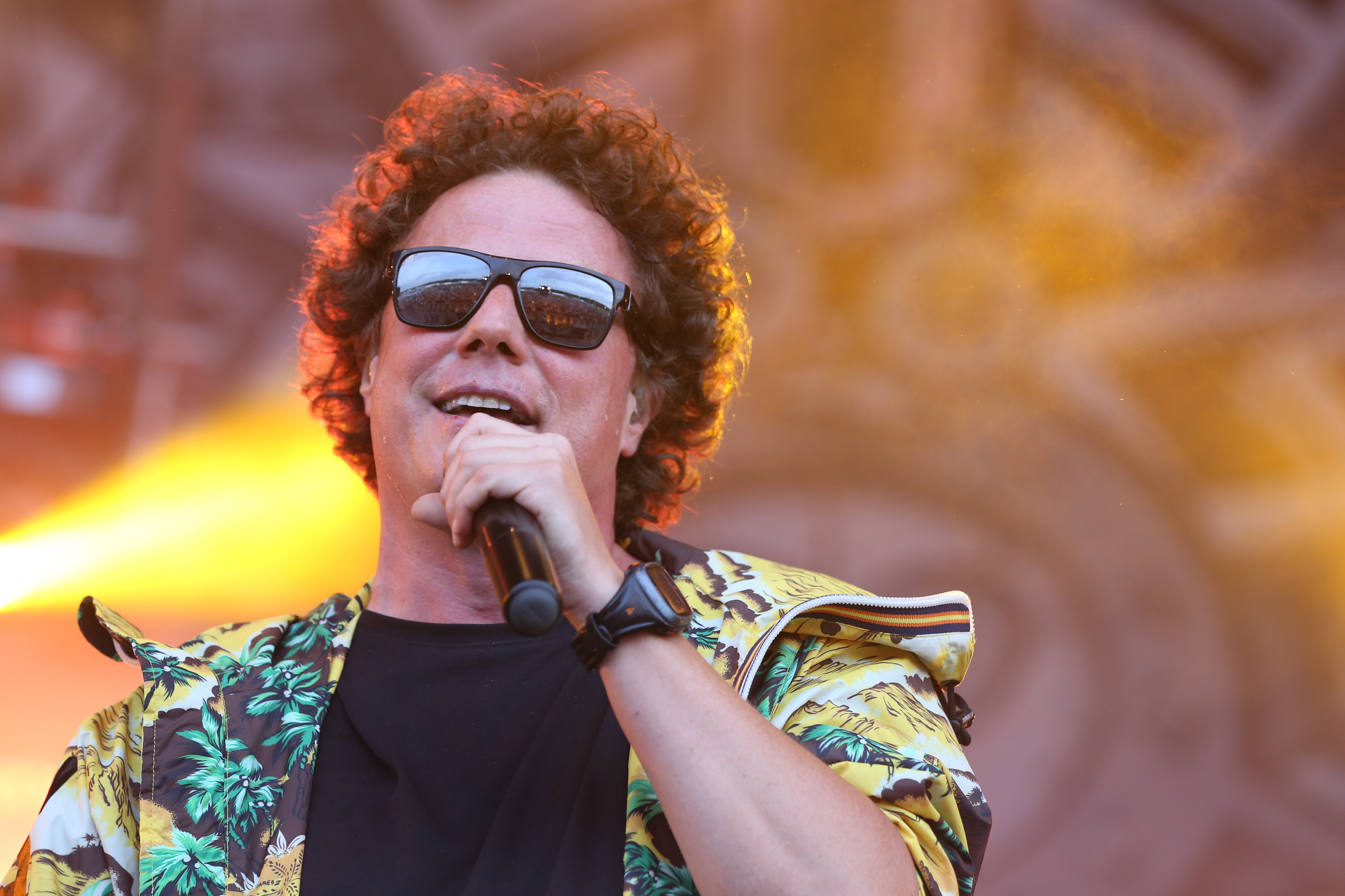 Pol'and'Rock Festival in 2019.